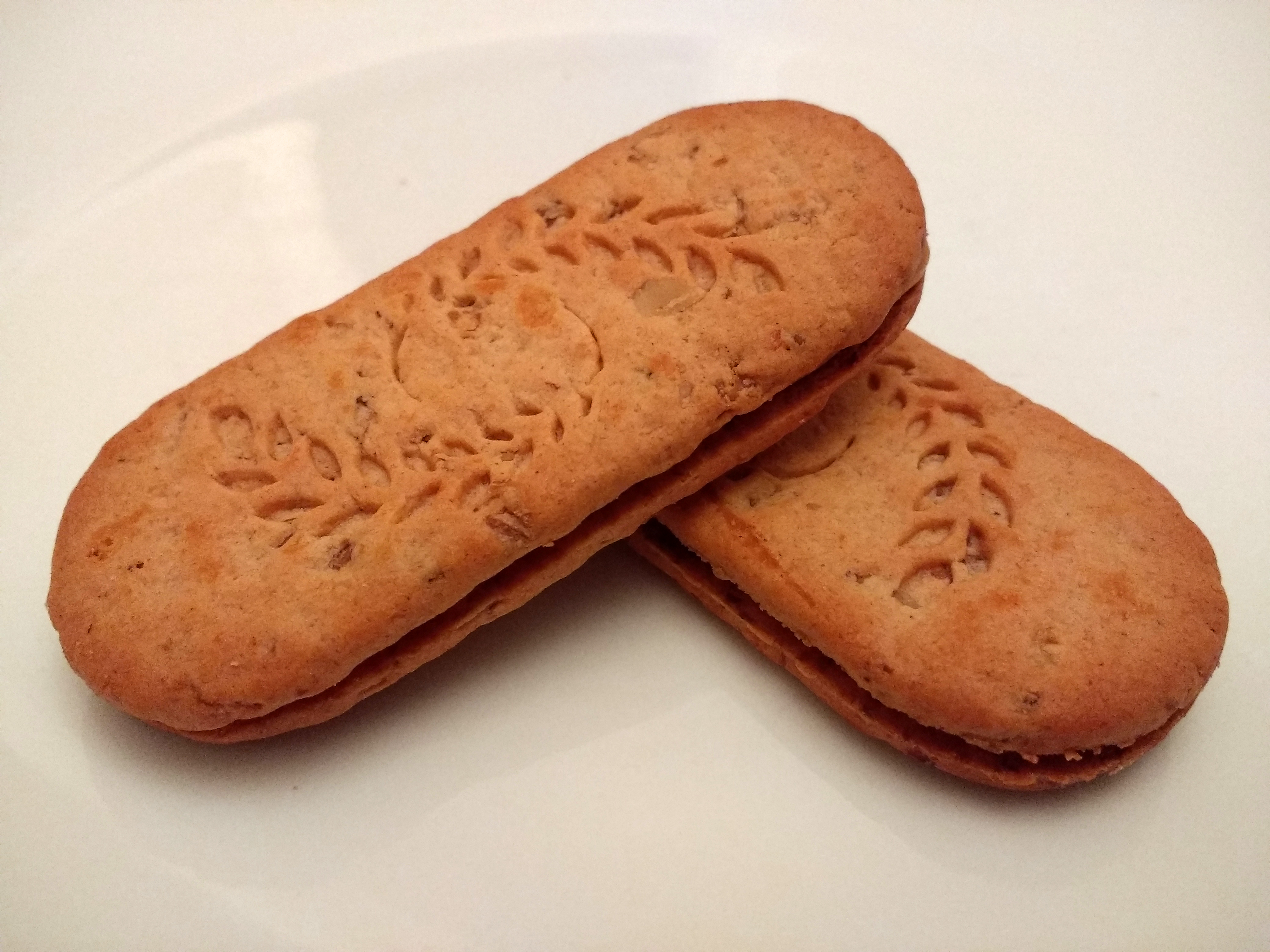 Two Belvita sandwich breakfast biscuits, peanut butter.